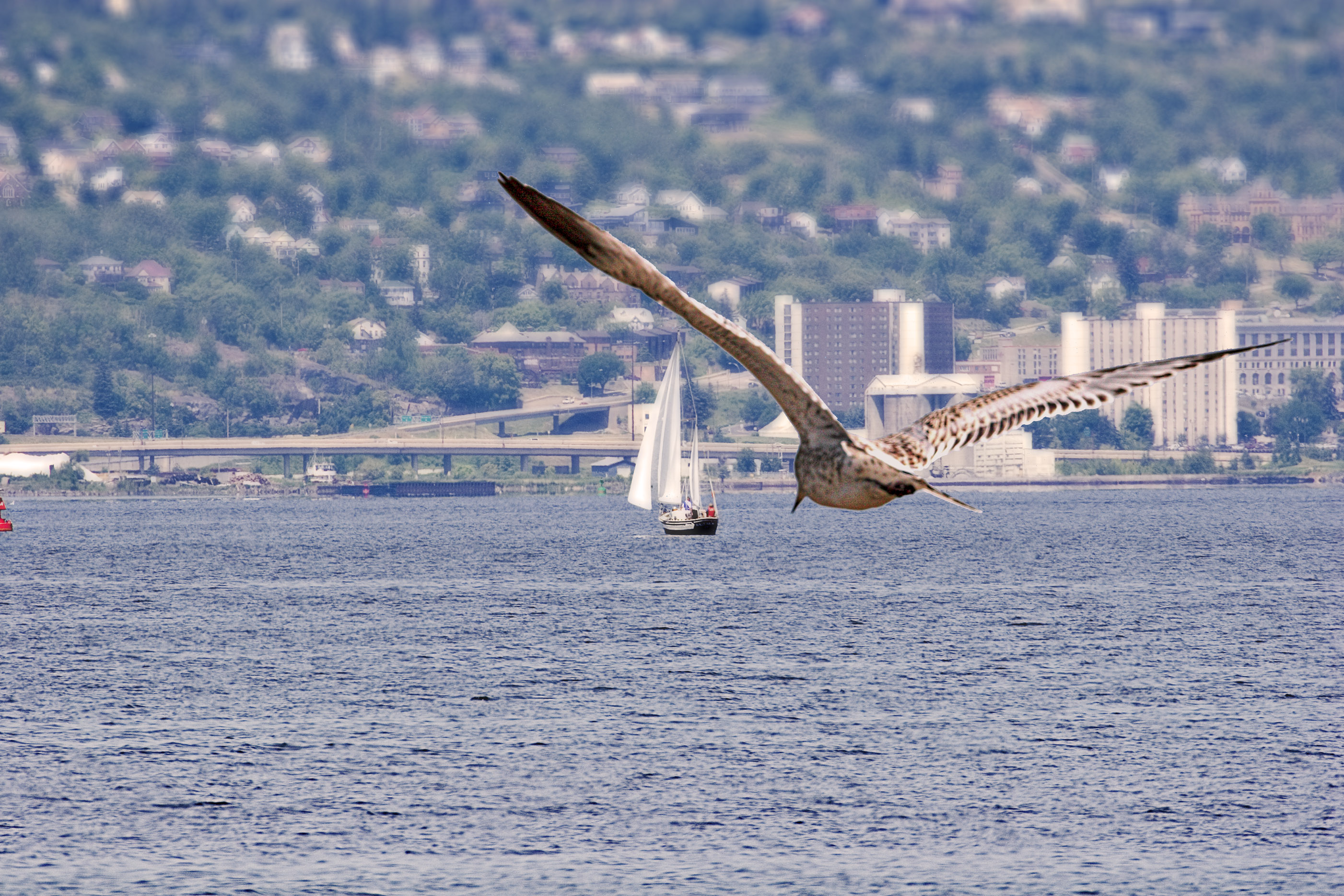 Immature Ring-billed Gull, Lake Superior, Duluth, Minnesota